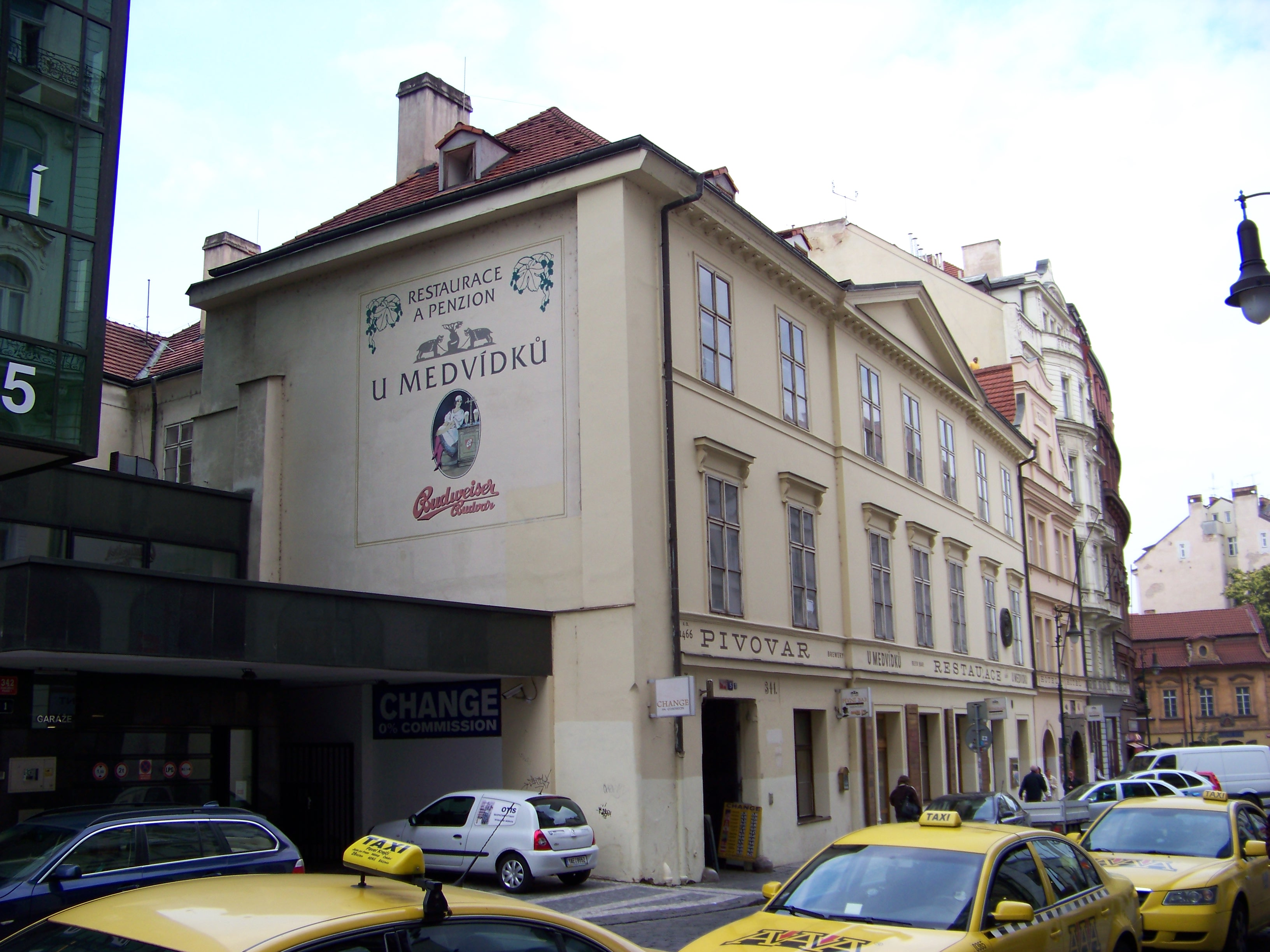 Prague-Old Town. Na Perštýně 344/5, U Medvídků.